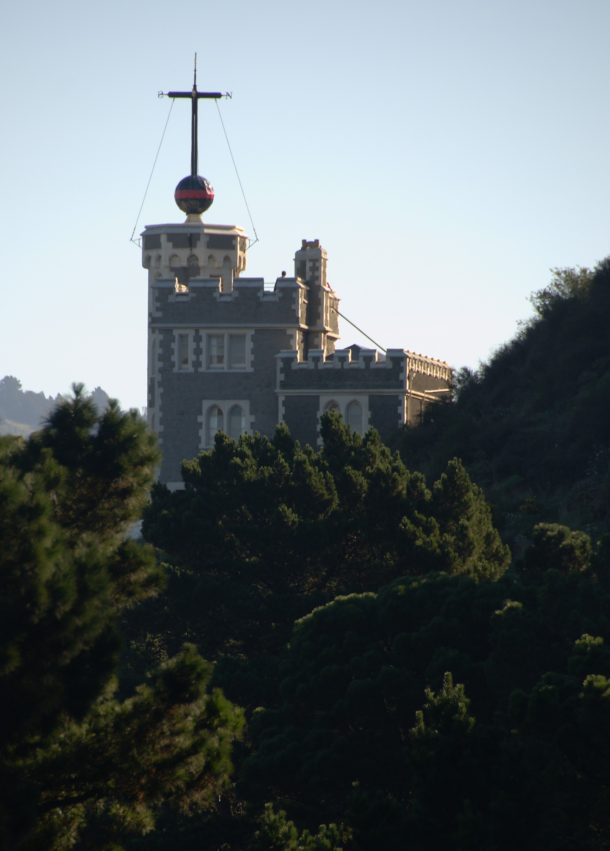 Lyttelton Timeball Station from the East, Christchurch, New Zealand. New Zealand Historic Places Trust Register number: 43.